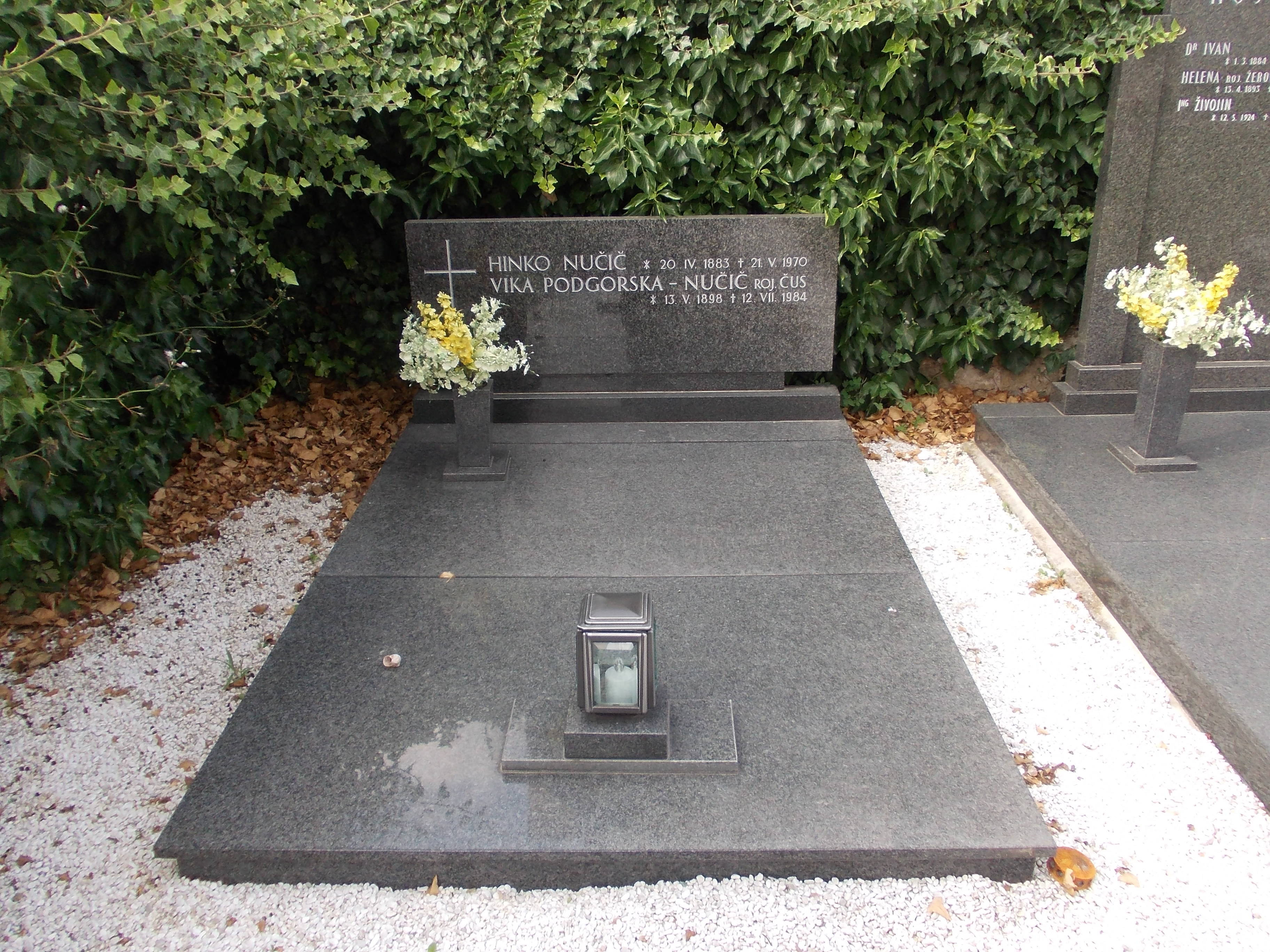 The grave of Hinko Nučič, Zgornja Polskava Cemetery